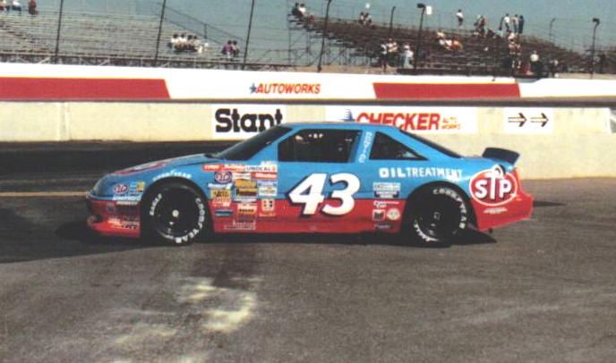 The Petty Enterprises STP Pontiac of Richard Petty had engine trouble in the 1989 Checker Autoworks 500 and finished 42nd.